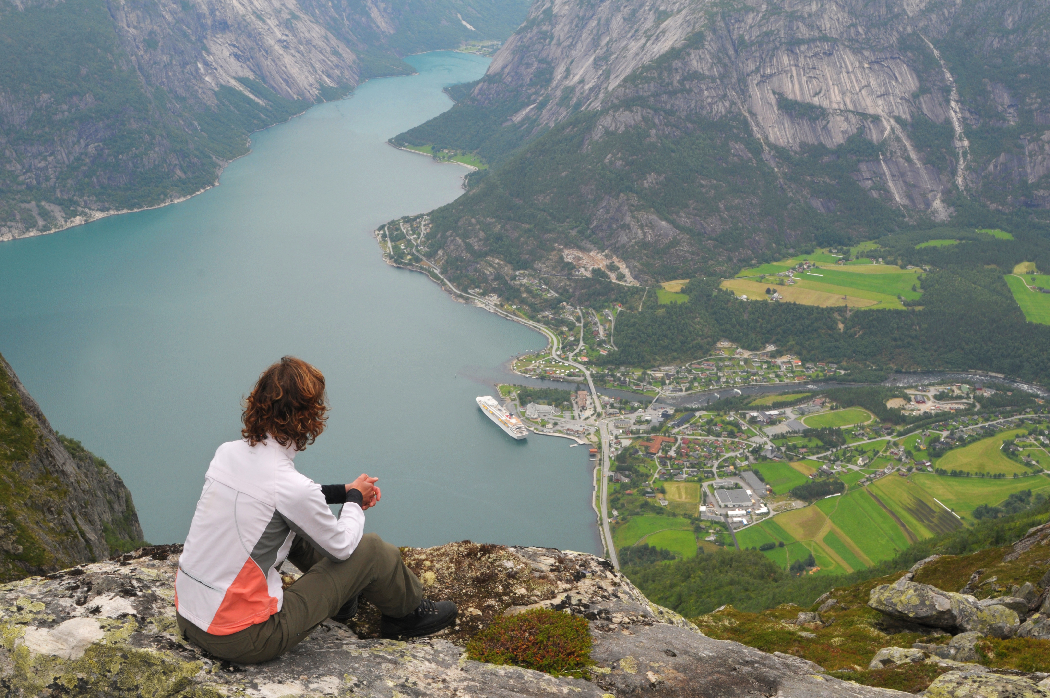 View from Øktanuten, Agurtxane Concellon, 2009, Øktanuten Eidfjord.